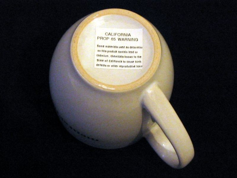 Lead or Cadmium - California Proposition 65 Warning